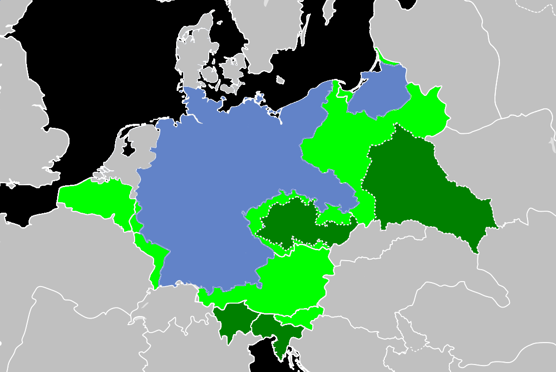 Areas annexed by Nazi Germany